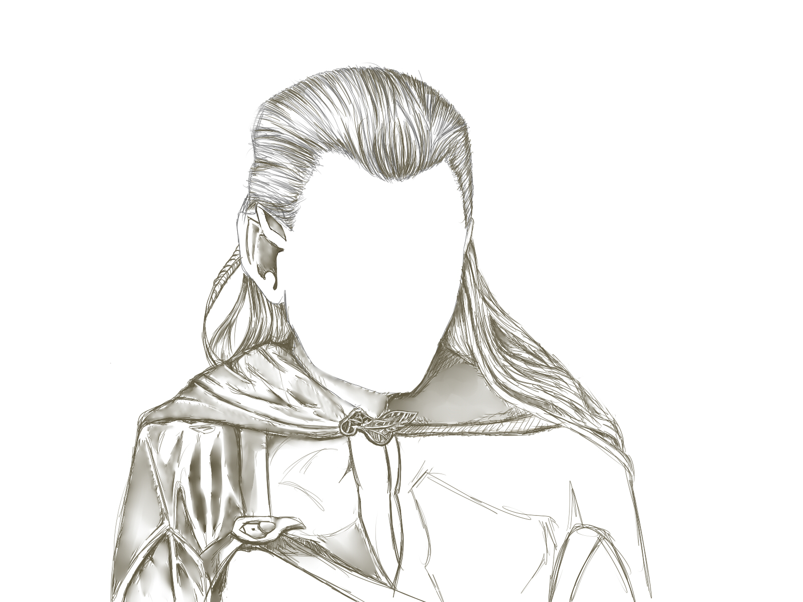 Unfinished drawinf of Legolas